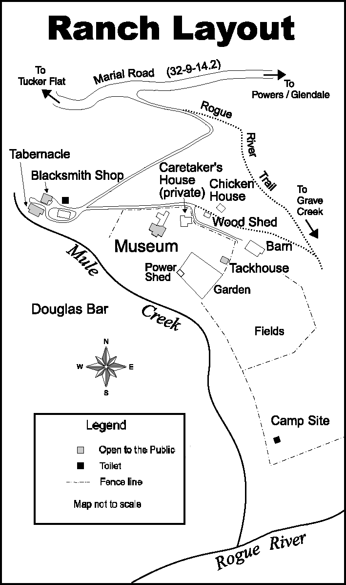 Site map of the Rogue River Ranch; the ranch is located on the north shore of the Rogue River at the mouth of Mule Creek in Curry County, Oregon